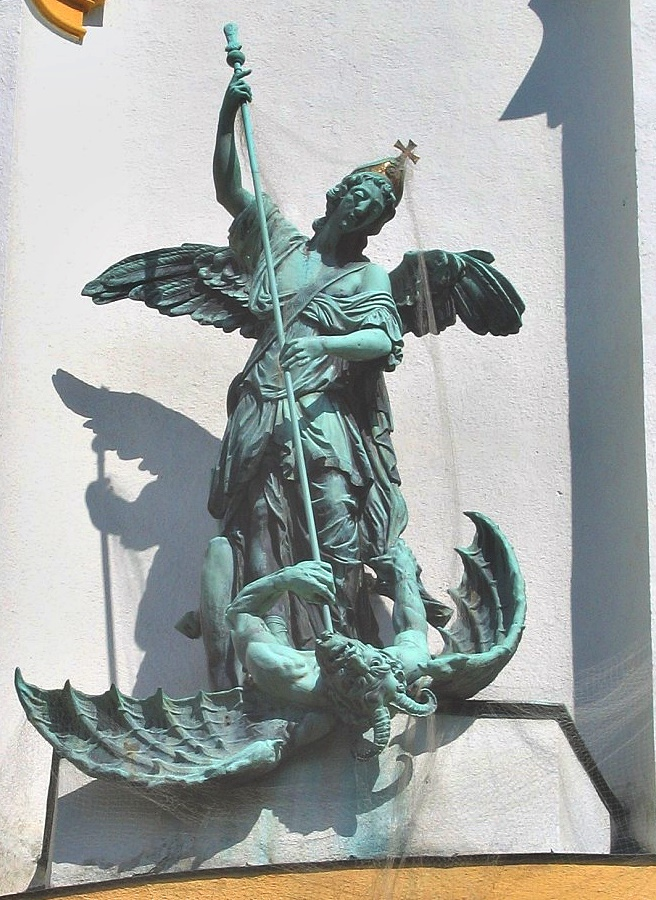 Fassadenfigur St. Michael, Berg am Laim, von Franz Joseph Muxel (1745-1812)